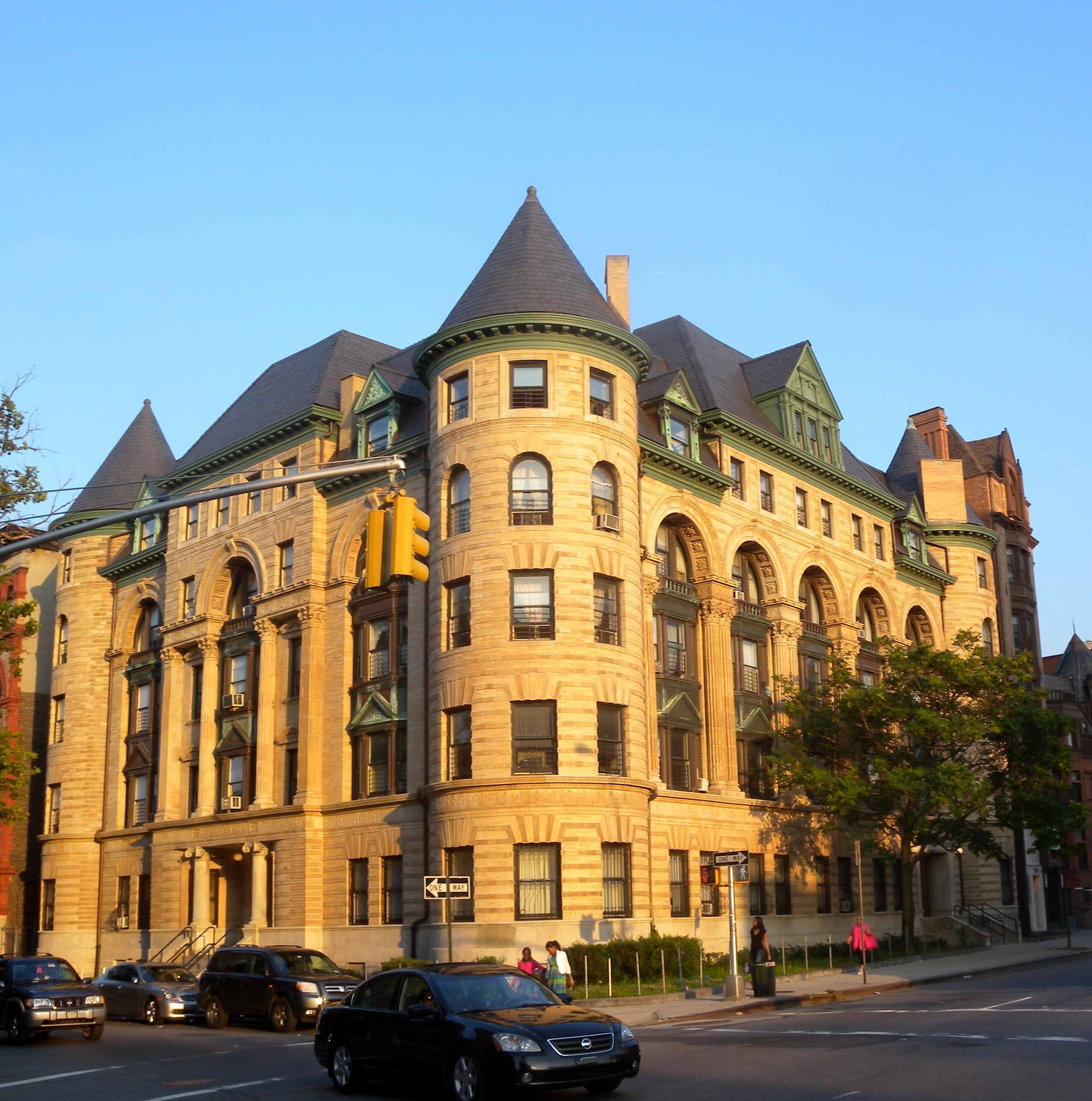 Looking southeast across Bedford Avenue and Pacific Street at Imperial Apartments at dusk of a sunny day.